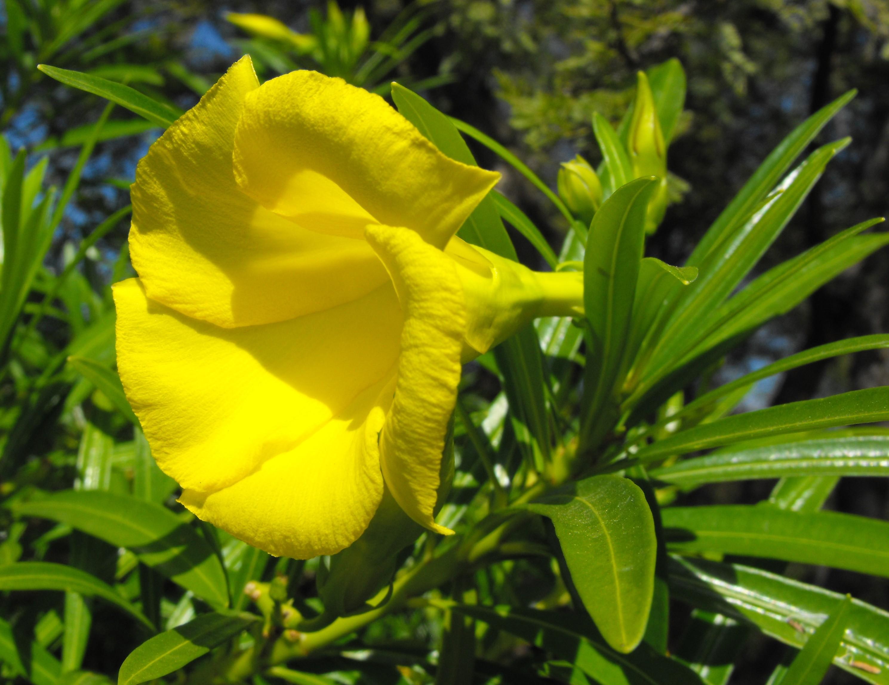 Thevetia peruviana in the Water Conservation Garden at Cuyamaca College, El Cajon, California, USA. Identified by sign.